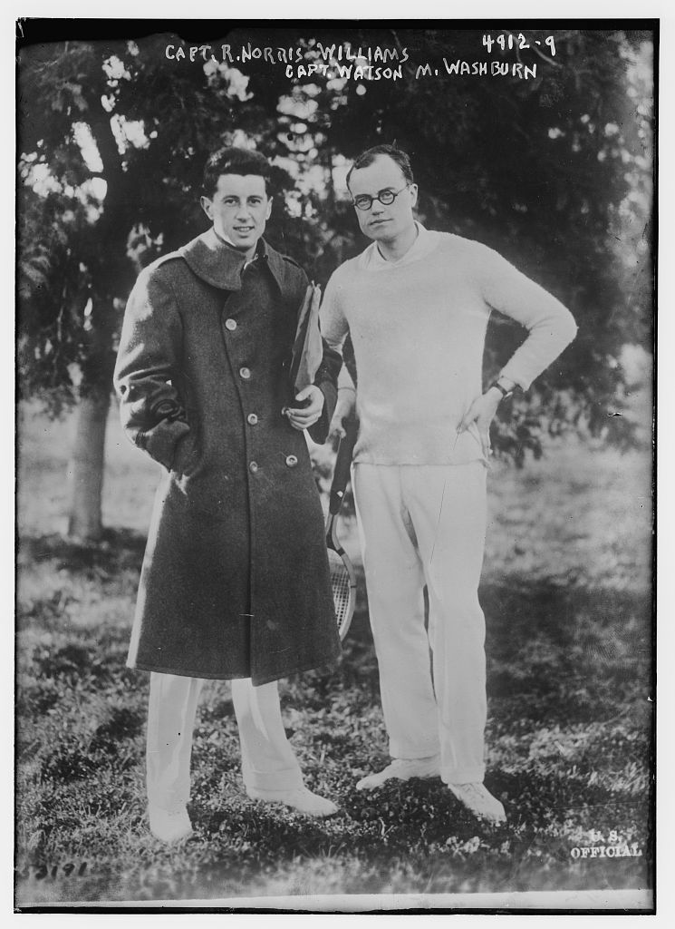 Capt. R. Norris Williams and Capt. Watson M. Washburn